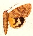 PLATE CXCIX.